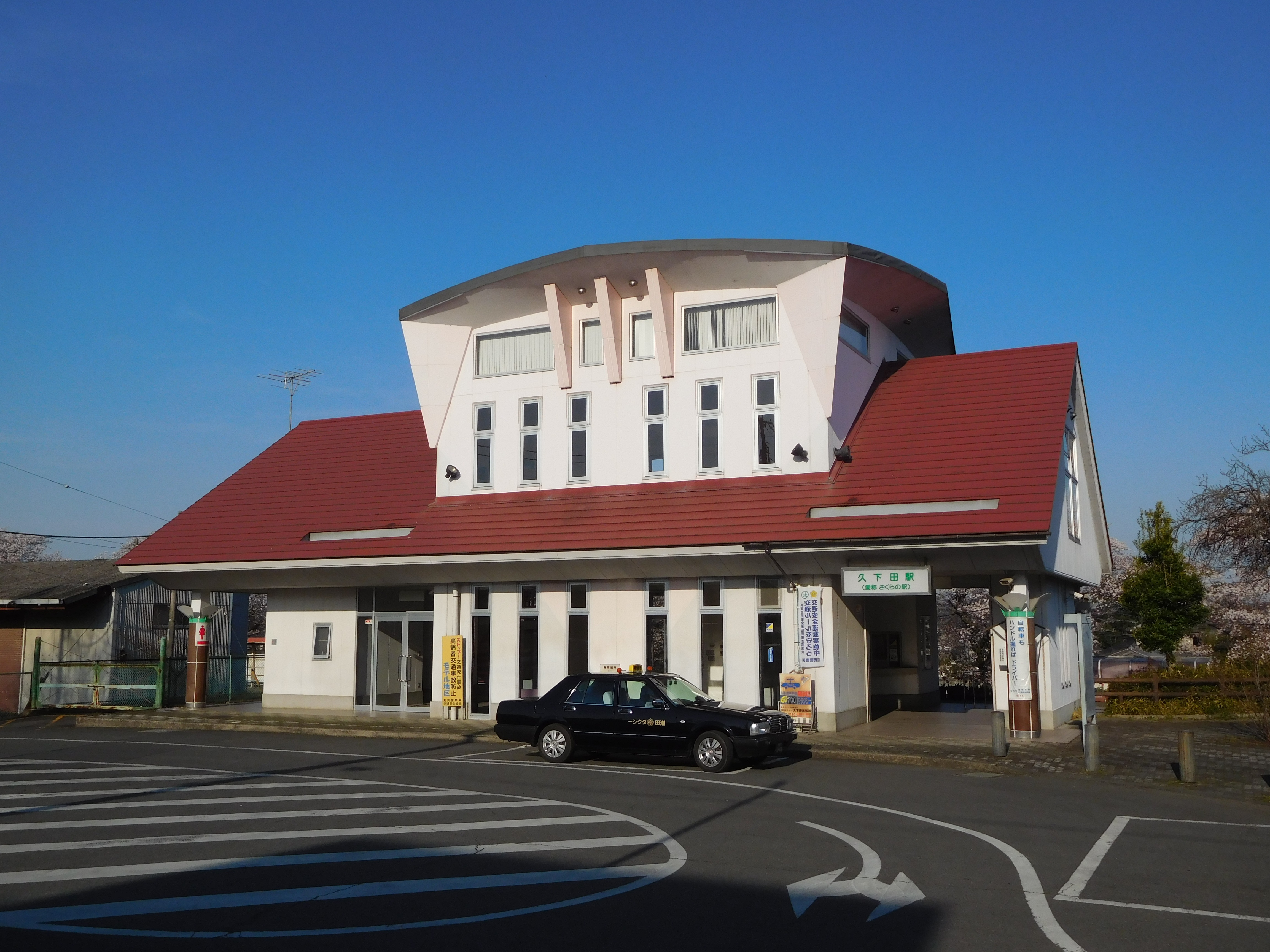 This is Kugeta station of Moka Railway in Moka, Tochigi, Japan.